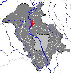 This map shows the area of the Gemeinde (municipality) Peggau in the Bezirk (district) Graz-Umgebung, Styria, Austria.